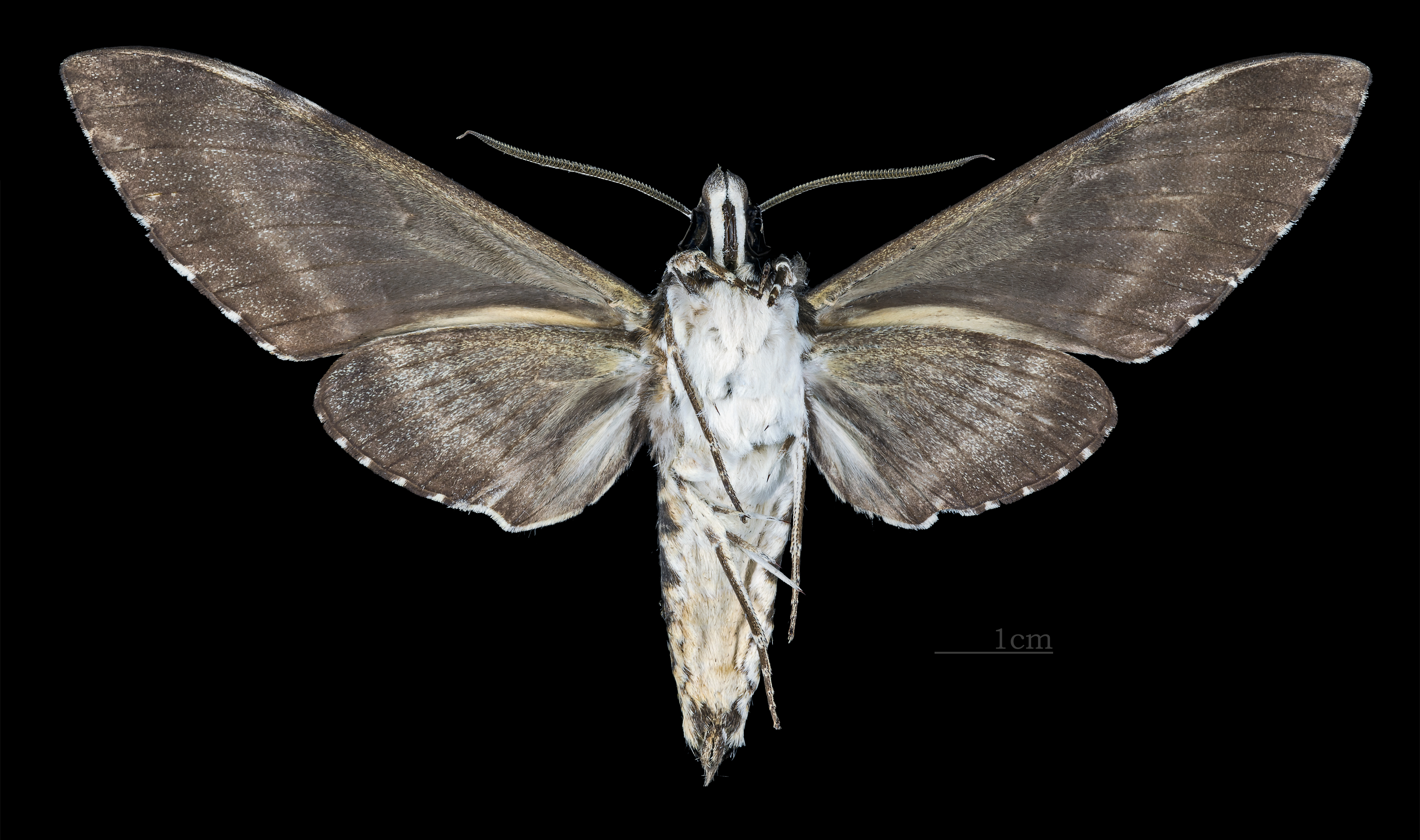 Poliana leucomelas - △ Ventral side Collection of the Mathematician Laurent Schwartz